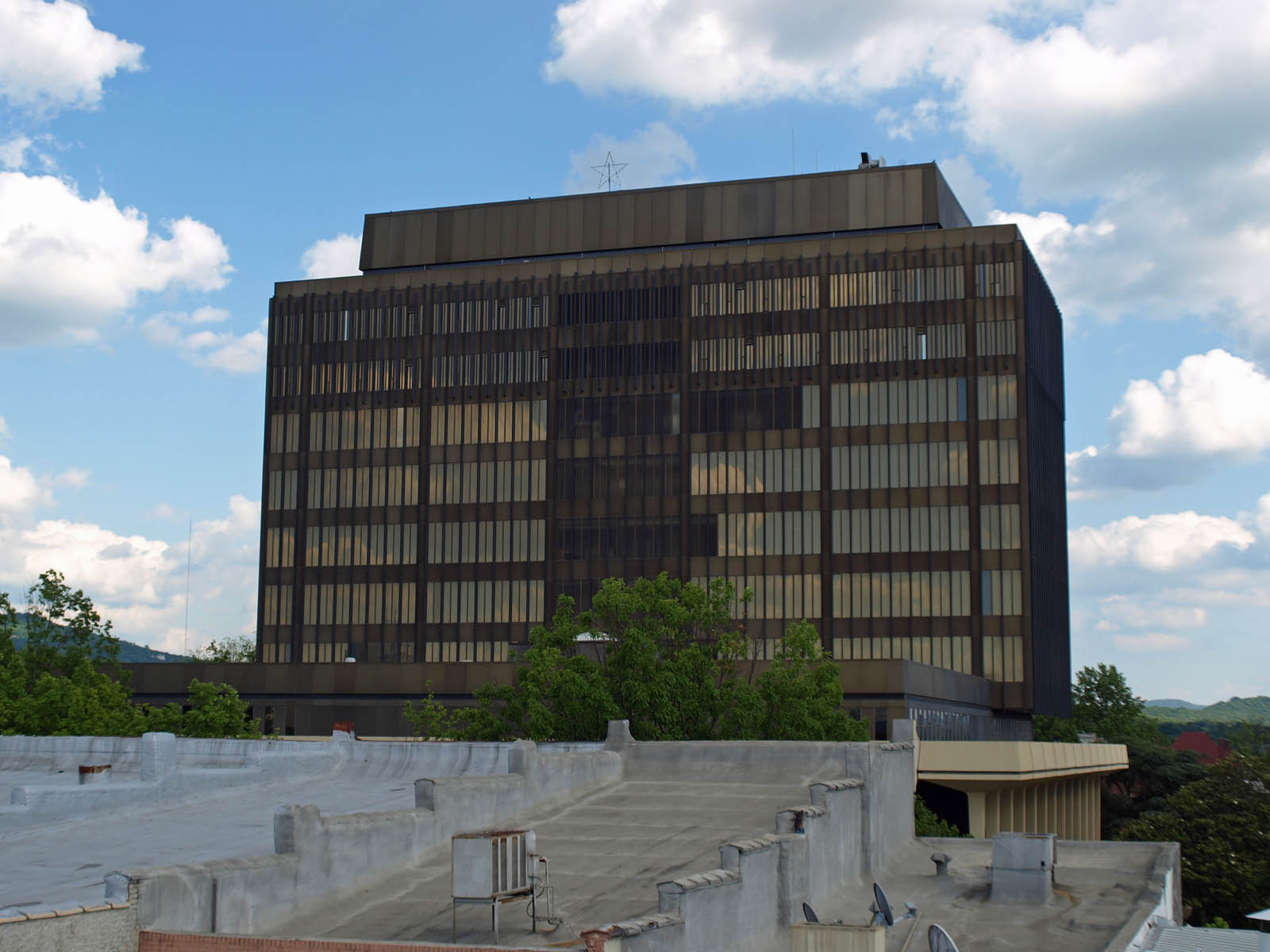 The Madison County Courthouse in Huntsville, Alabama.